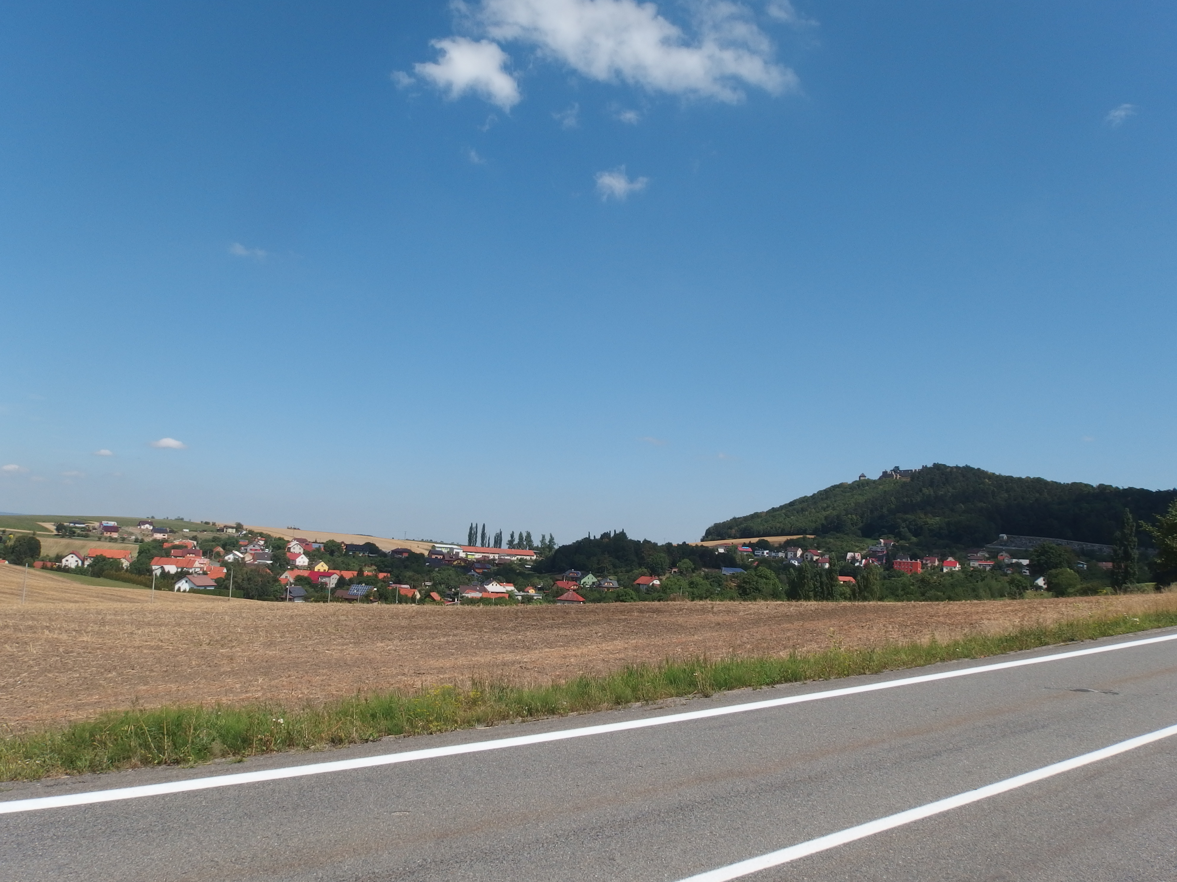 Starý Jičín, Nový Jičín District, Czech Republic, part Vlčnov.